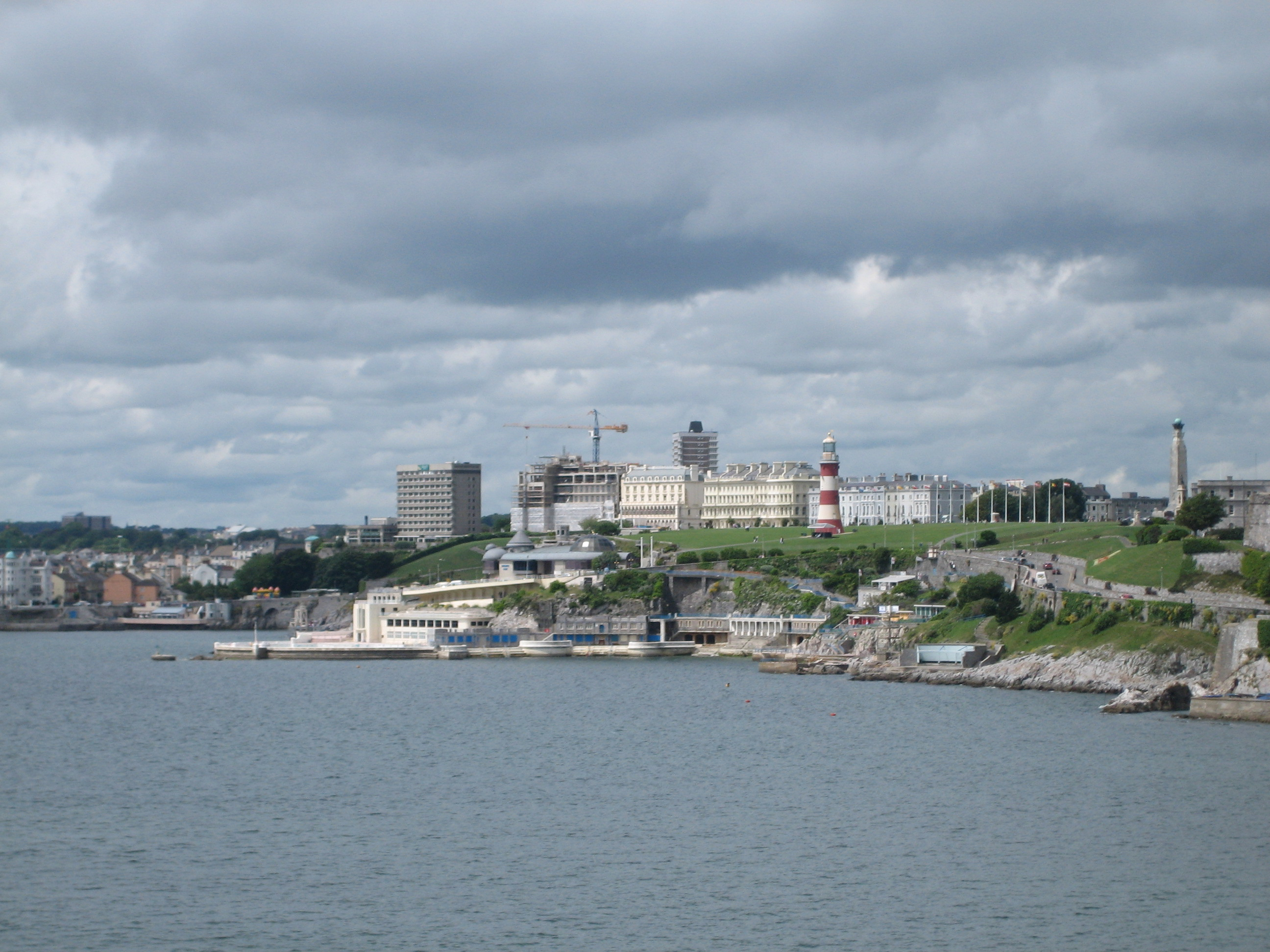 Plymouth Hoe from Mountbatten Note: I have uploaded a cropped and enhanced version of this file to Commons: —SMALLJIM 15:23, 29 March 2008 (UTC)